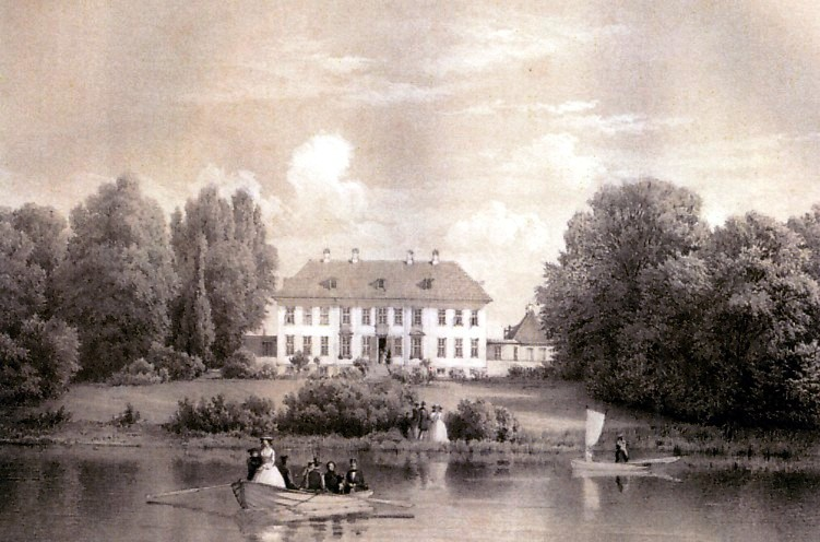 Eriksholm neatr Holbæk, Denmark